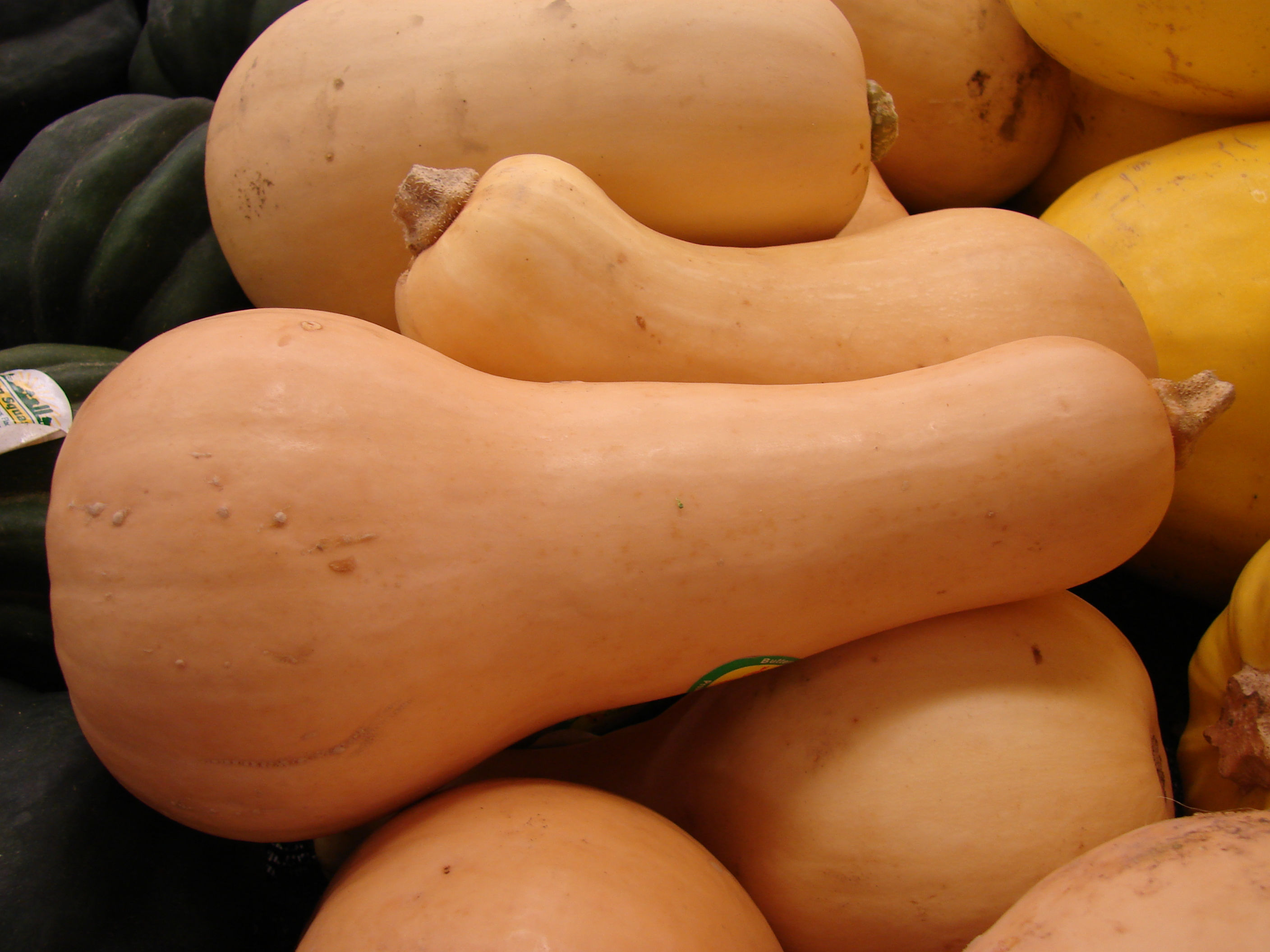 Cucurbita pepo (butternut squash). Location: Maui, Foodland Pukalani